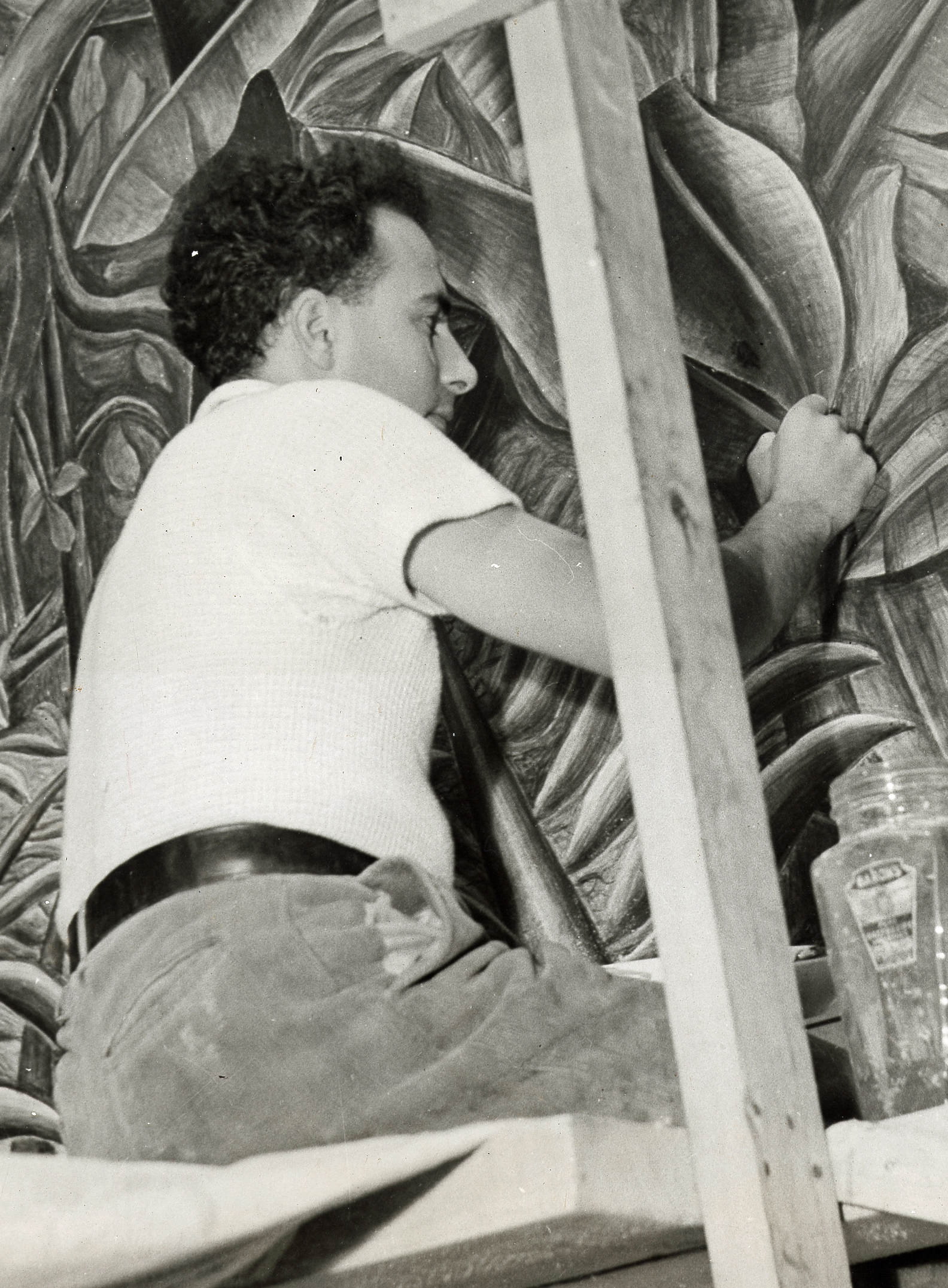 Identification on verso, left (handwritten and stamped): Title: Tropical and Hudson Valley Vegetation. Artist: Louis Arenal. Identification on verso, right (handwritten and stamped): Federal Art Project W.P.A., Photographic Division, 235 East 42nd Street, New York City.Location: Bellevue Hospital; Date: 7/6/36; Negative No.: 368 H; Photographer: Herman. Identification on accompanying label (typewritten): Louis Arenal, WPA Federal Art Project mural painter and assistant working on a fresco panel entitled